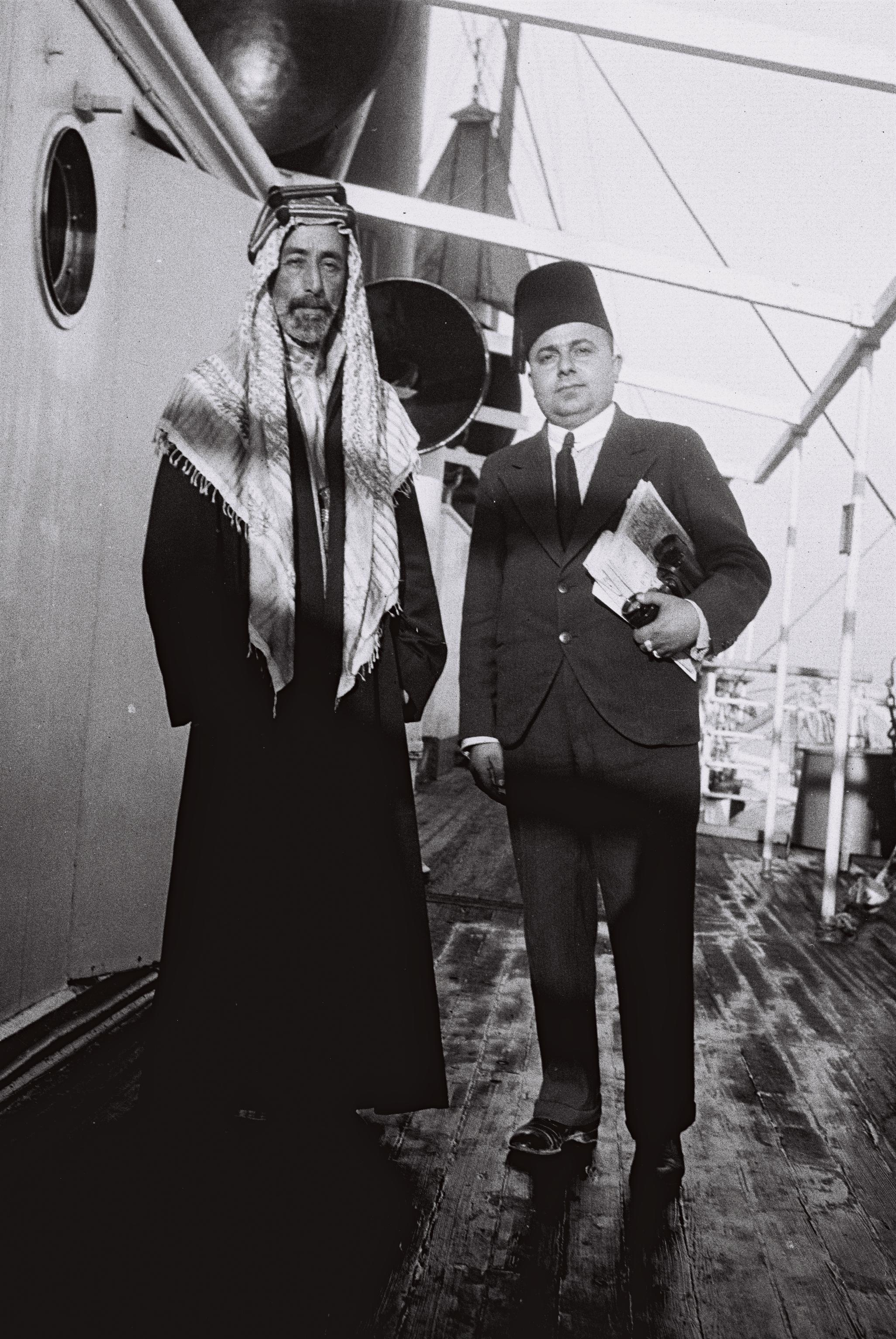 EXILED KING ALI OF HEJAZ WITH THE EDITOR OF THE JAFFA ARAB DAILY "PALESTINE" ABOARD A SHIP AT THE JAFFA PORT. עלי מלך חג'אז בצילום משותף עם עורך העיתון מיפו "פלסטין" על סיפון האוניה בנמל יפו.